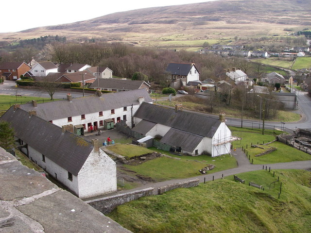 Stack Square, Blaenavon, part of the Ironworks and site of the TV series Coal House